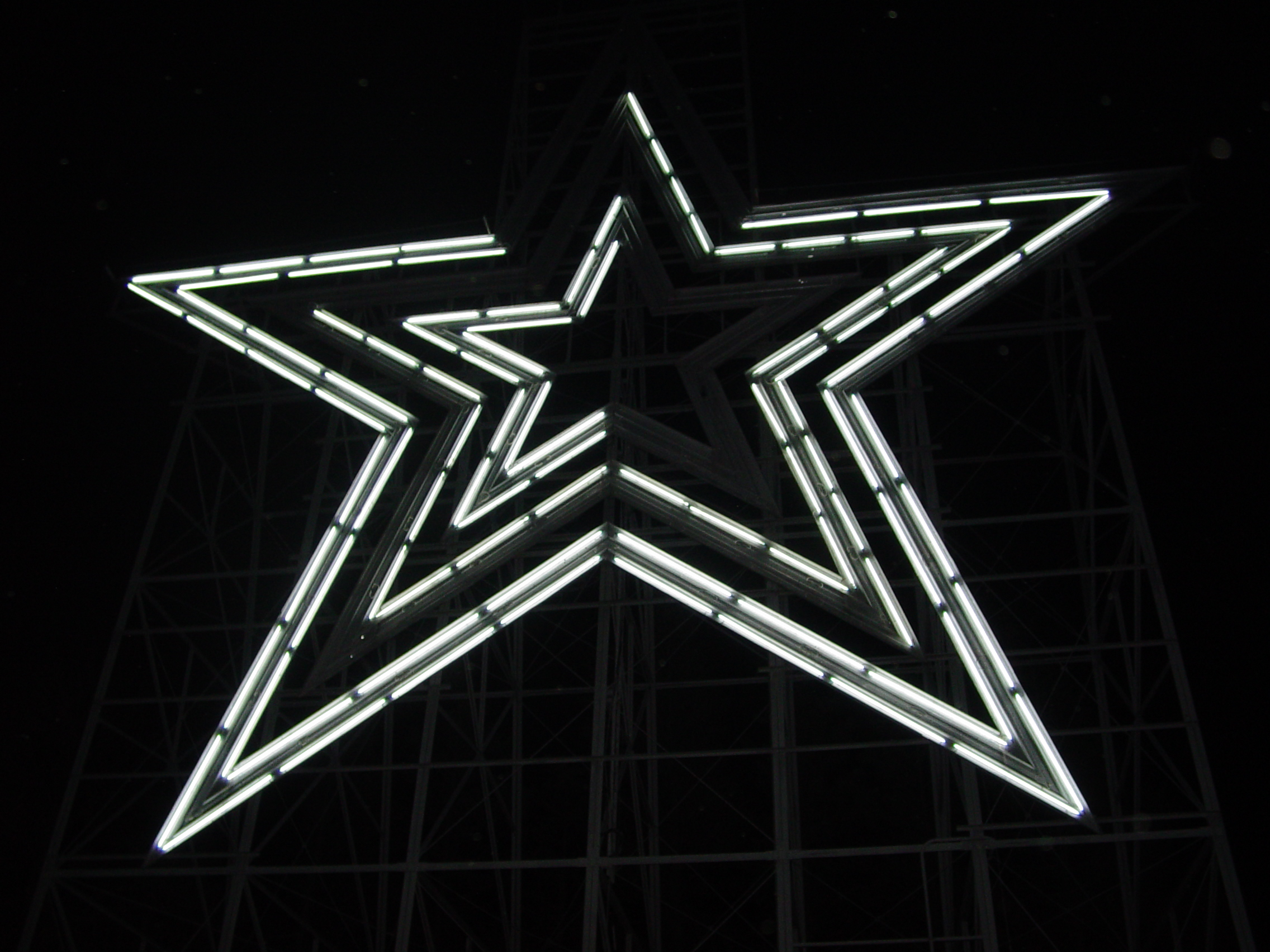 The Mill Mountain Star lit in white following the Virginia Tech massacre.